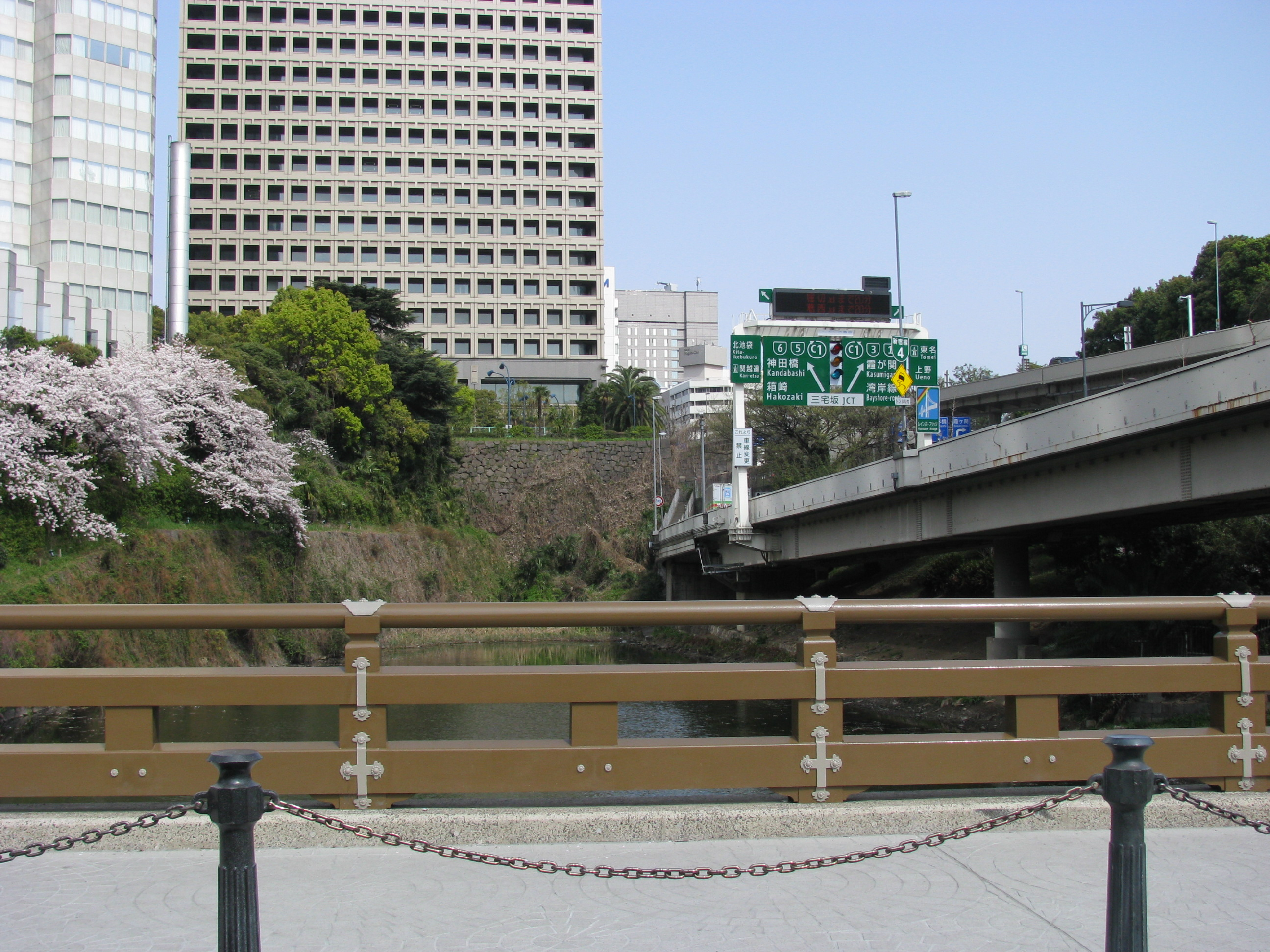 The Akasaka-mitsuke (castle gate) and the Benkei-bori (moat) of Edo-jō. This place is Kioichō in Chiyoda, Tokyo, Japan.